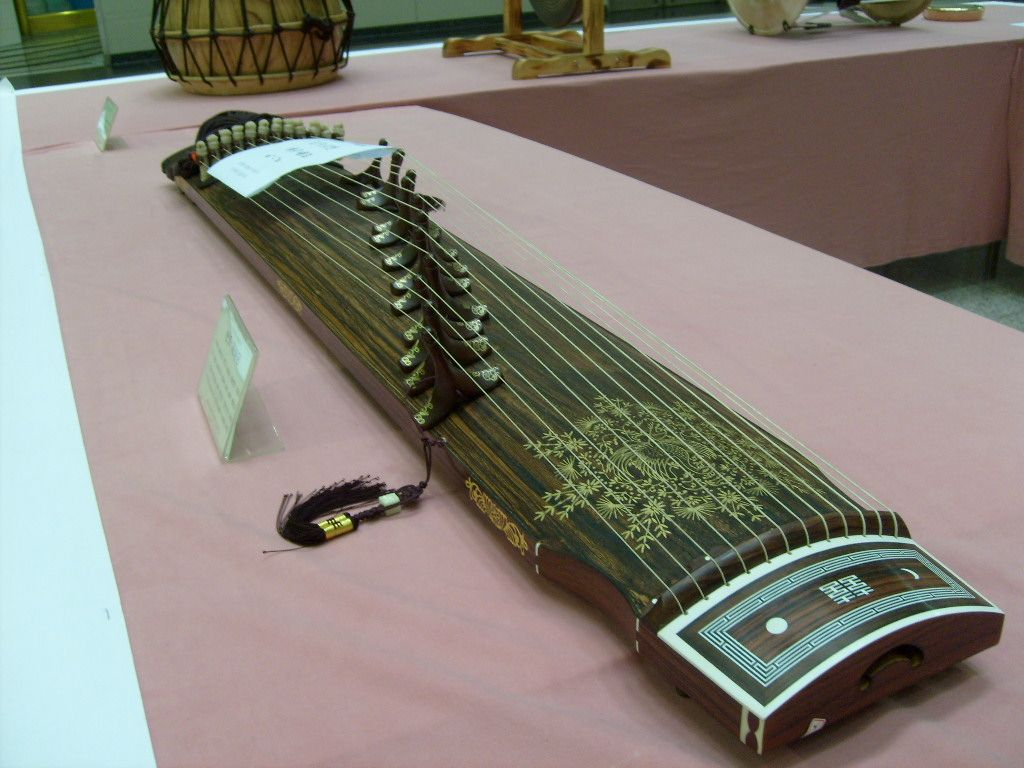 A 12-stringed sanjo gayageum, a traditional Korean zither, at an exhibit at Busan Station, Busan, South Korea